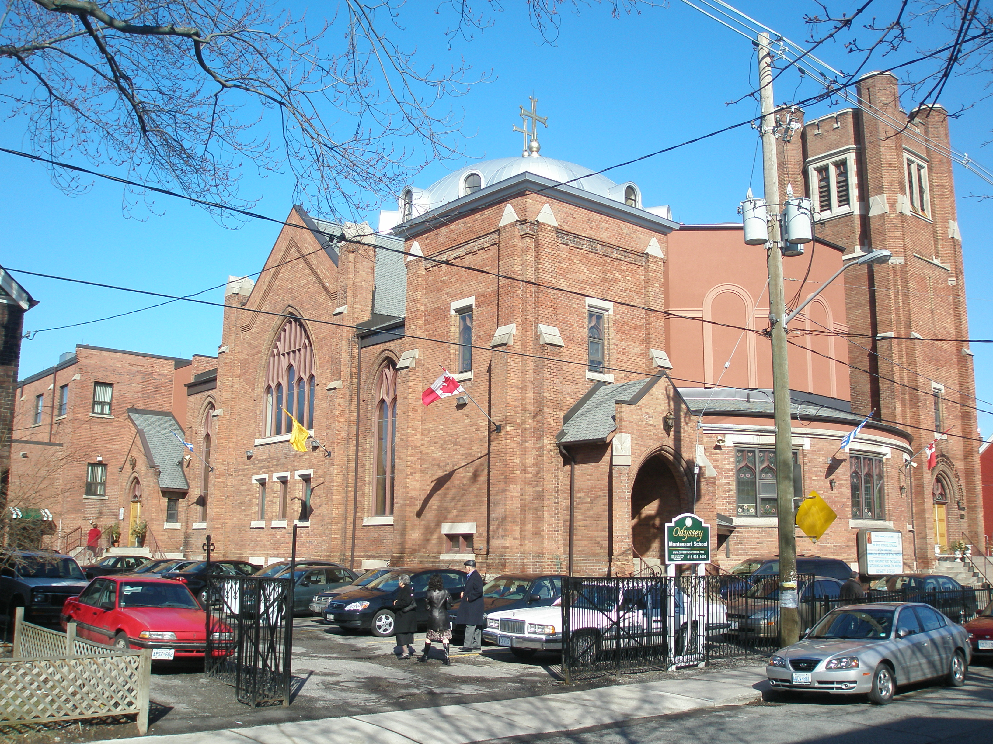 Annunciation Of The Virgin Mary Greek Orthodox Cathedral, Toronto, Ontario, Canada. Founded 1961. (The church structure was previously home of: North Parkdale Methodist Church (1909-1925), and North Parkdale United Church (1925-1961)).